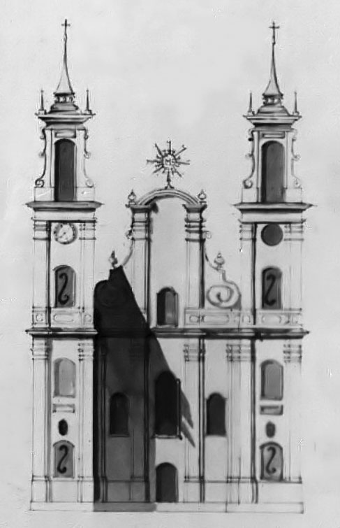 Catholic Church of SS. Peter and Paul in Babrujsk